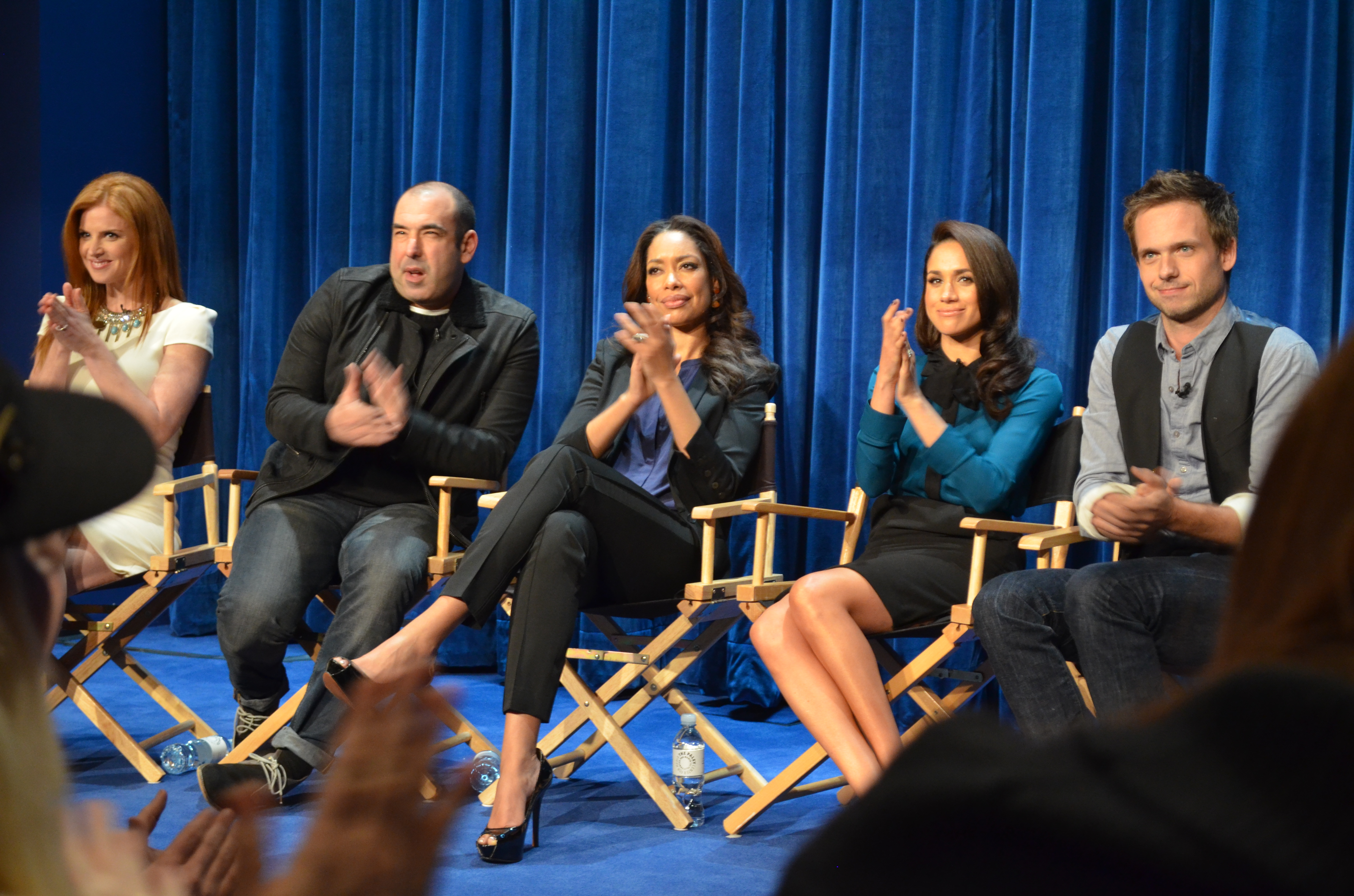 Paley Center: 'Suits' panel in 2013.